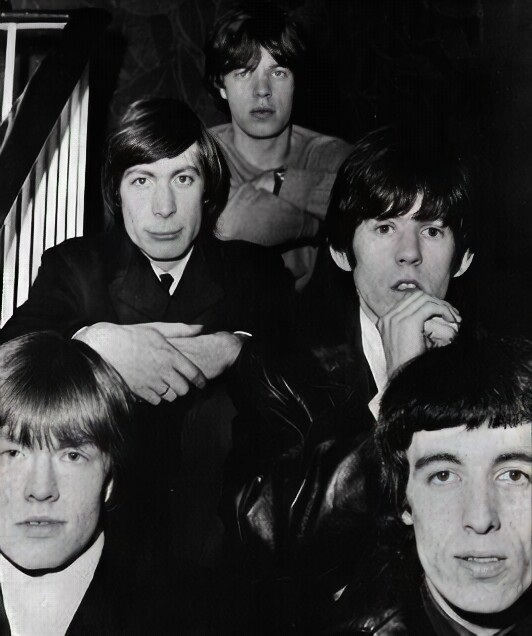 Group photographs of the Rolling Stones taken from a 1965 Billboard trade ad. From up to down: Mick Jagger; Charlie Watts and Keith Richards; Brian Jones and Bill Wyman.